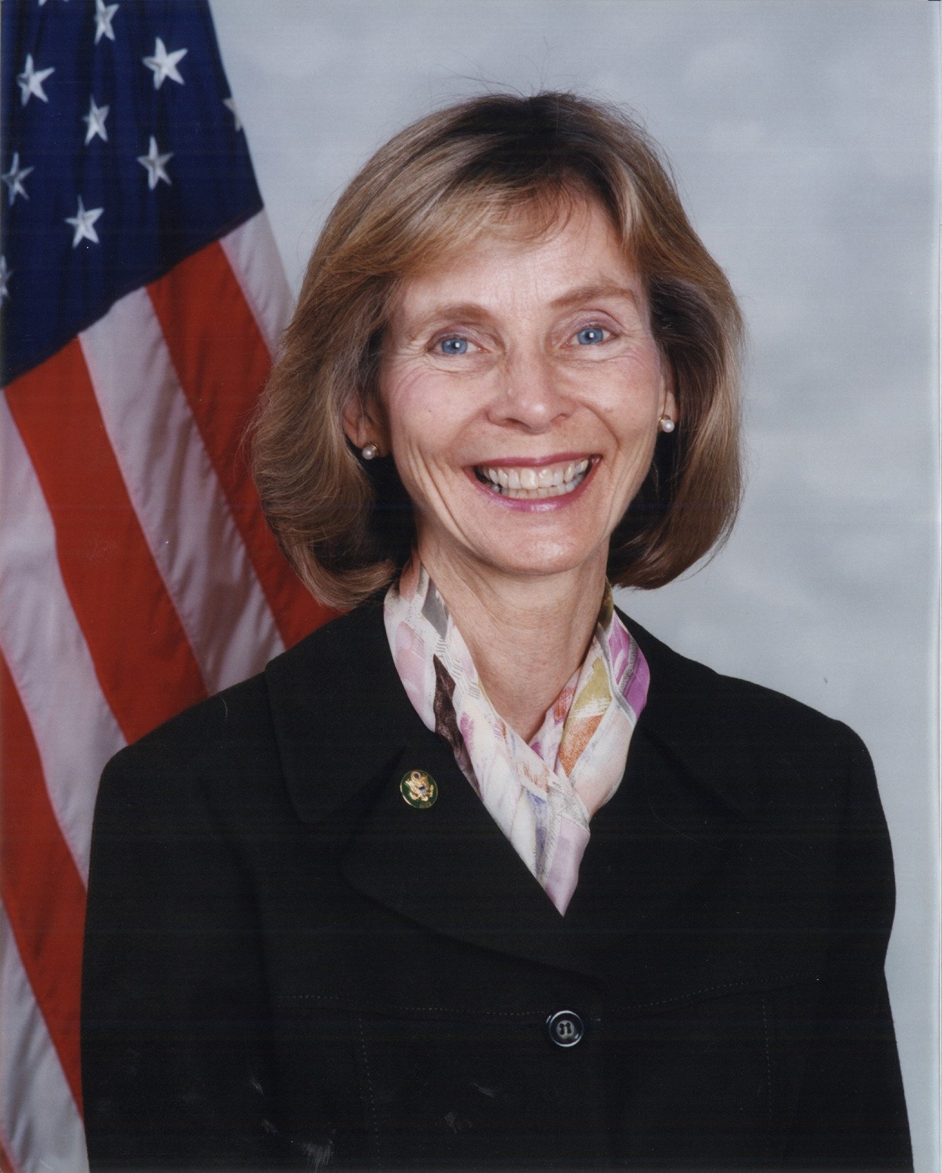 Lois Capps, member of the United States House of Representatives.